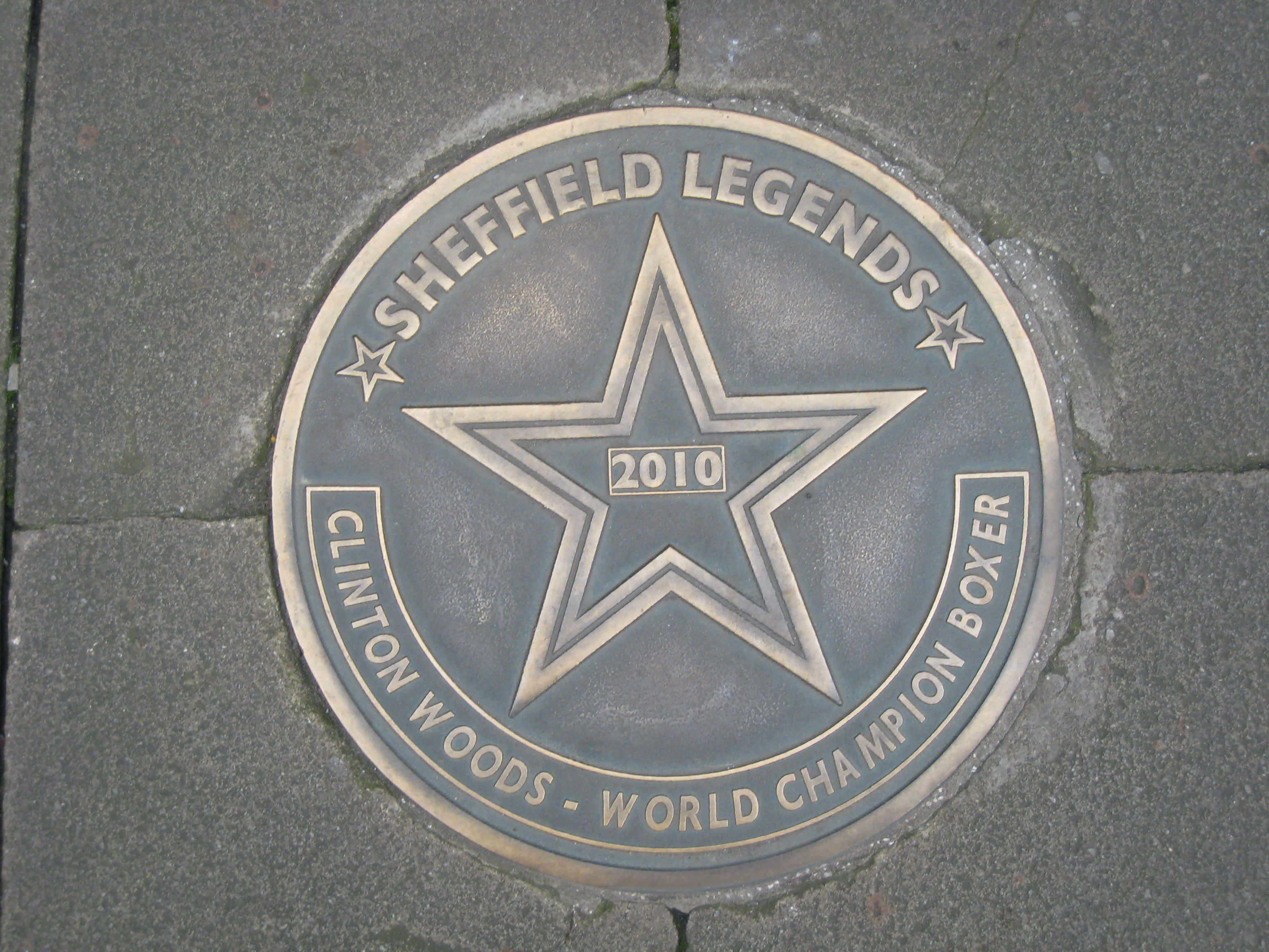 Commemorative star in the pavement outside Sheffield Town Hall: a "walk of fame" for people associated with the city. Clinton Woods, world champion boxer